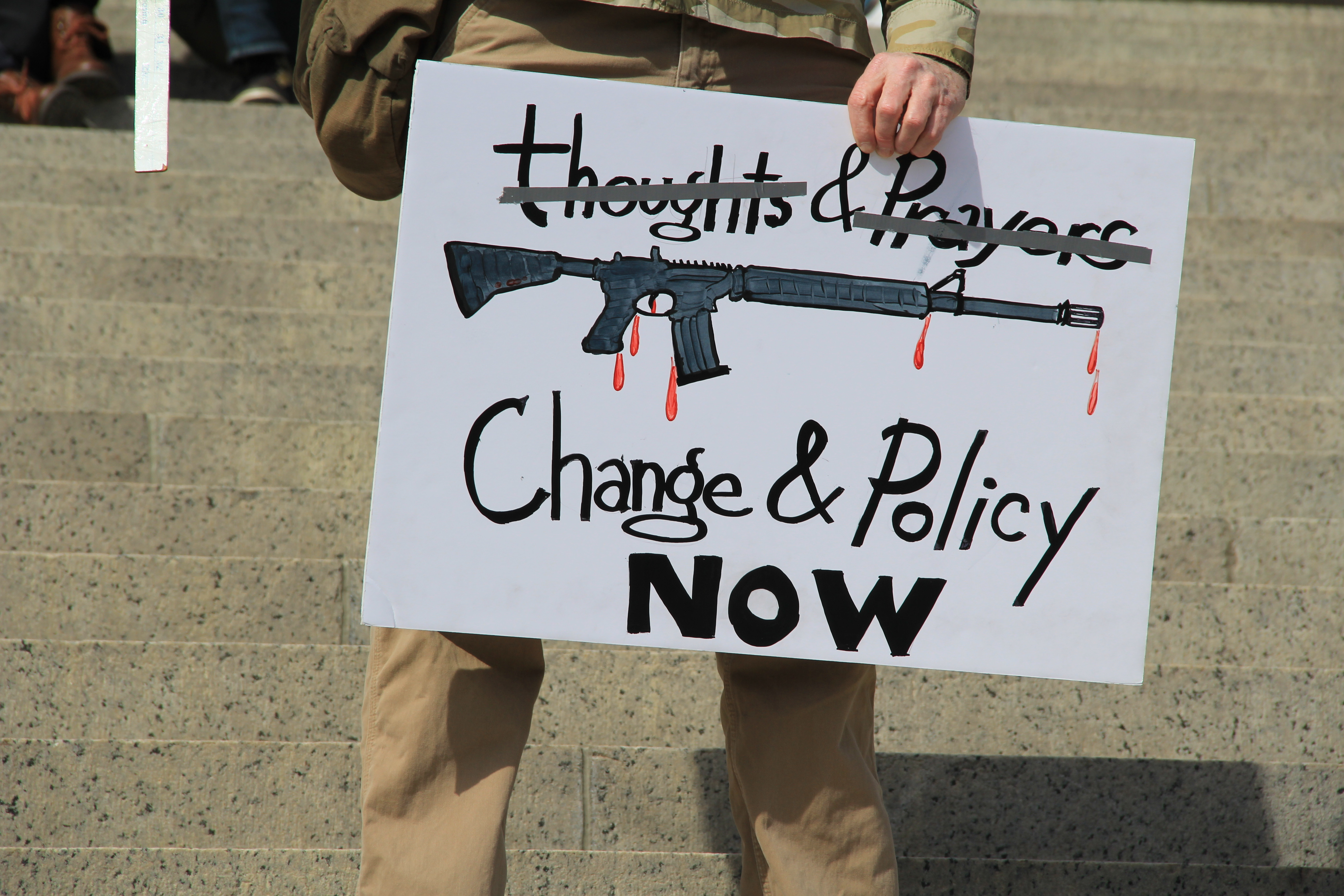 March for Our Lives Washington DC 2018 - Signs and Marchers